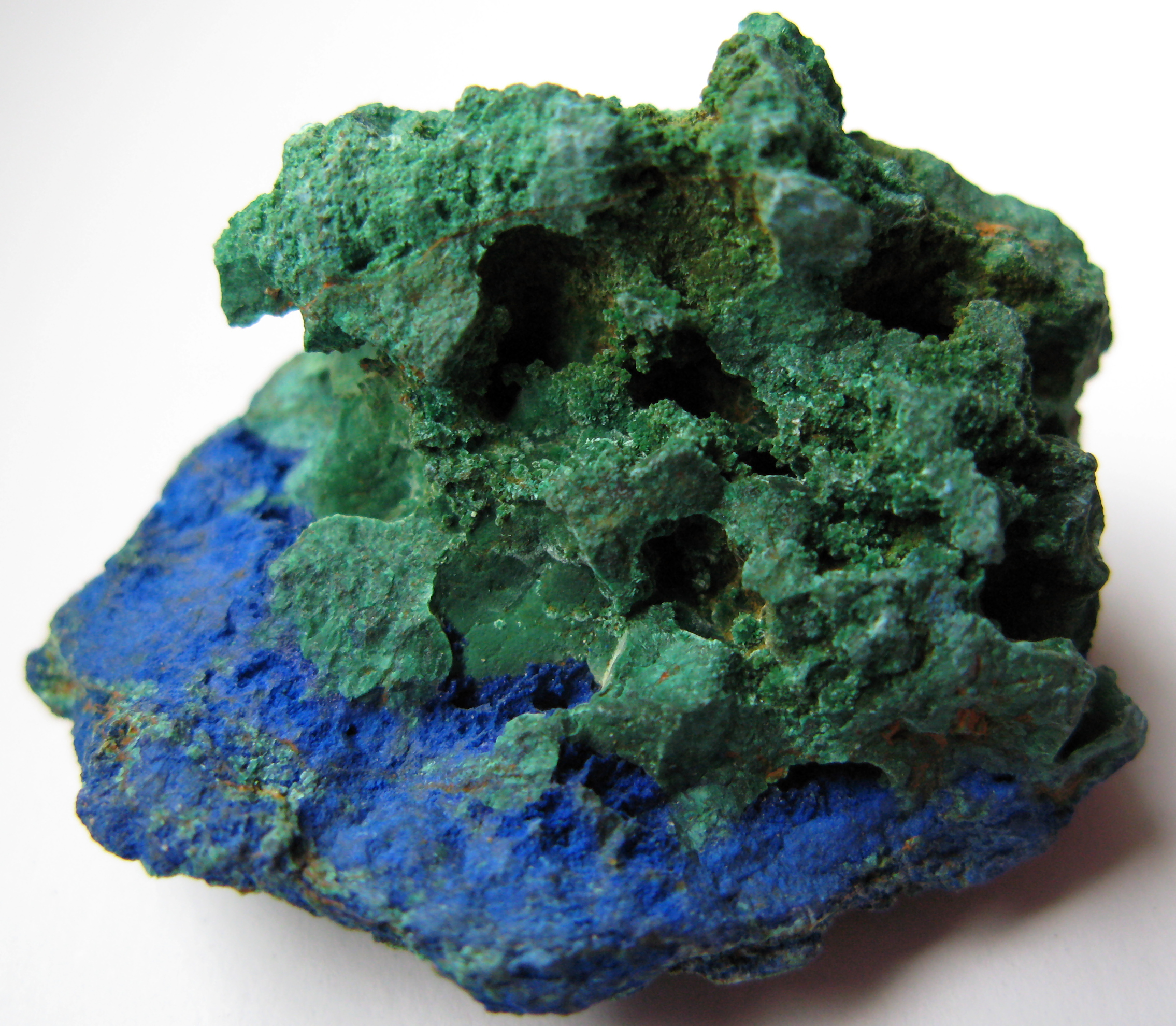 Azurite - Malachite from Marocco